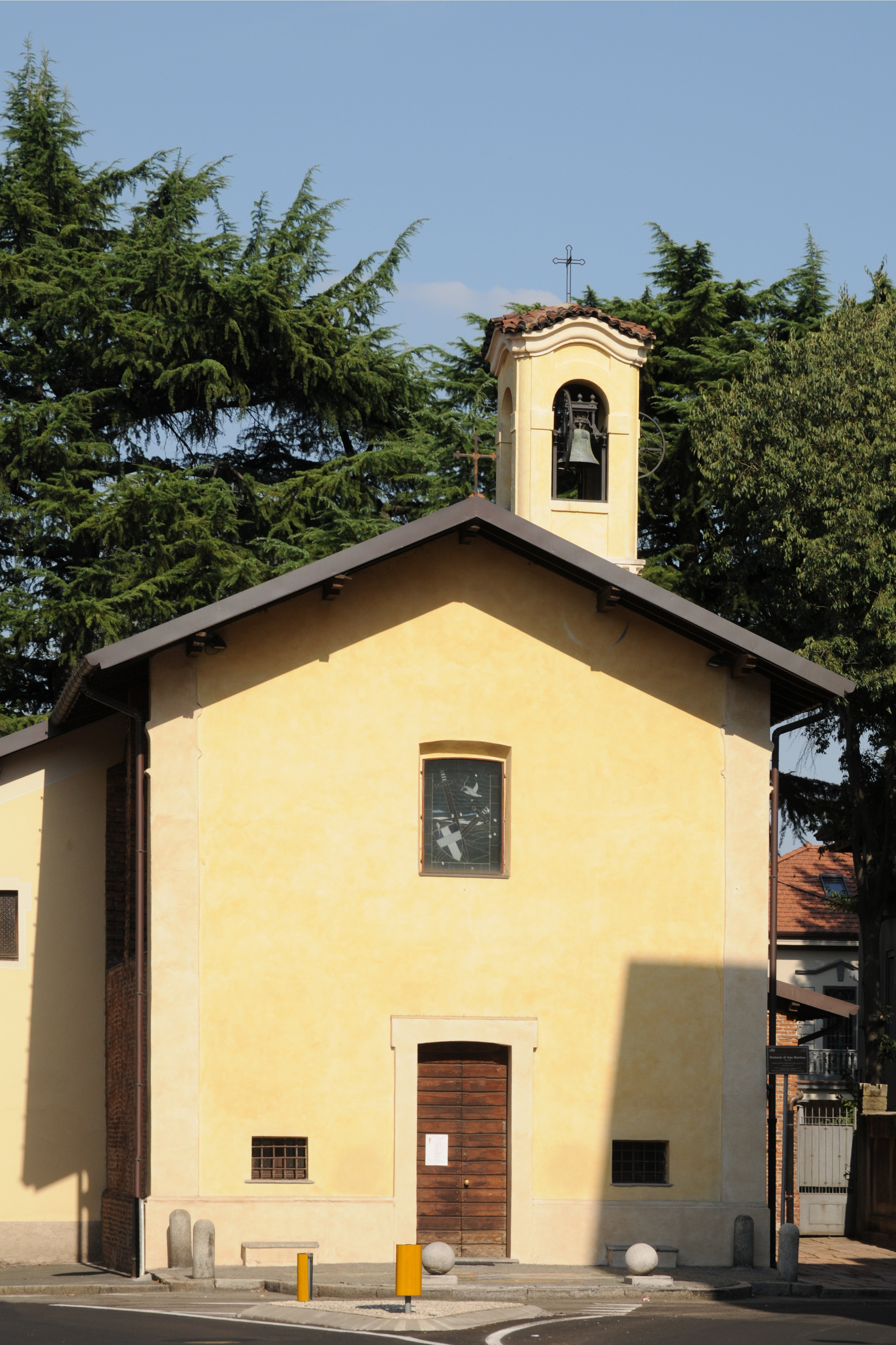 San Martino's Church in Legnano (Italy)